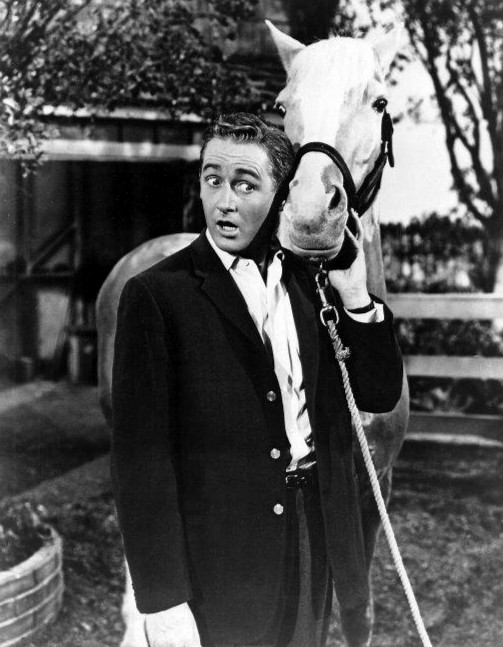 Photo of Alan Young as Wilbur Post and Mister Ed from the television program Mister Ed.